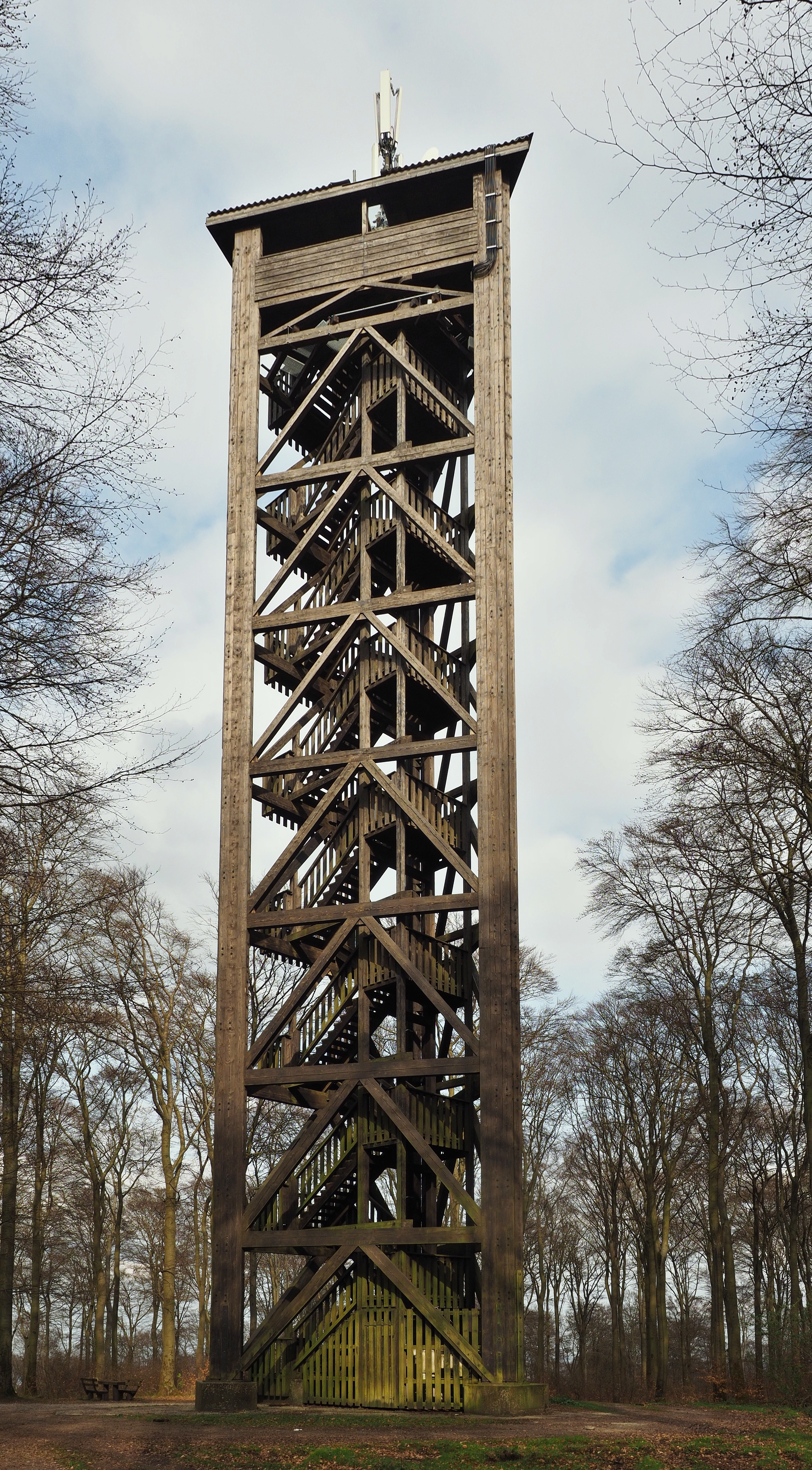 Lookout tower on Pferdskopf, Taunus, Germany